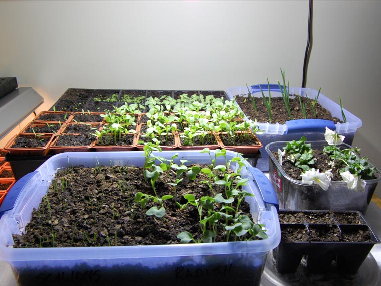 Indoor garden under metal halide and fluorescent lights. Plants are just germinating.